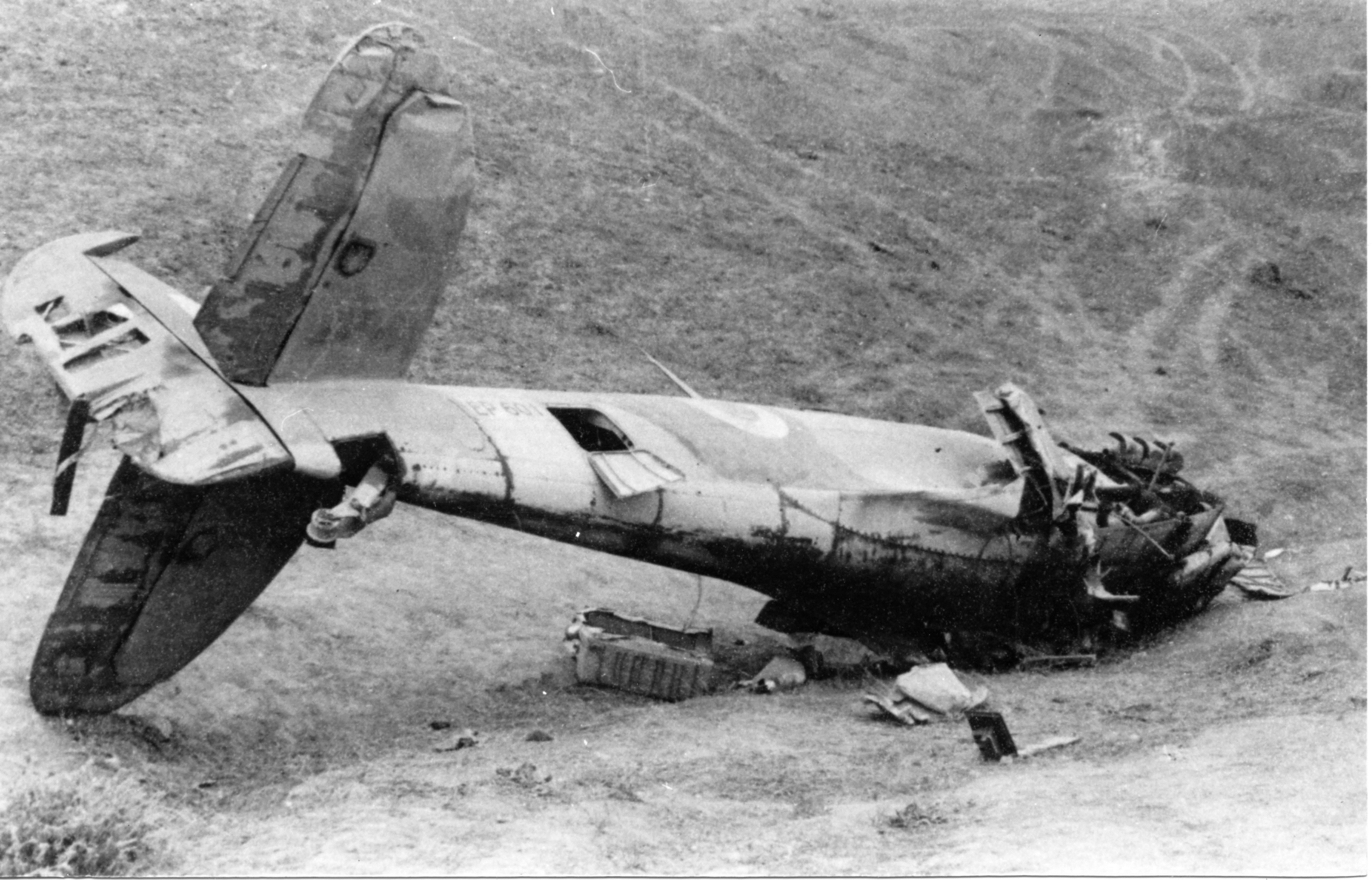 The Palmach, Israel Defense Forces, the Aircraft is most likely a downed Egypt Spitfire.